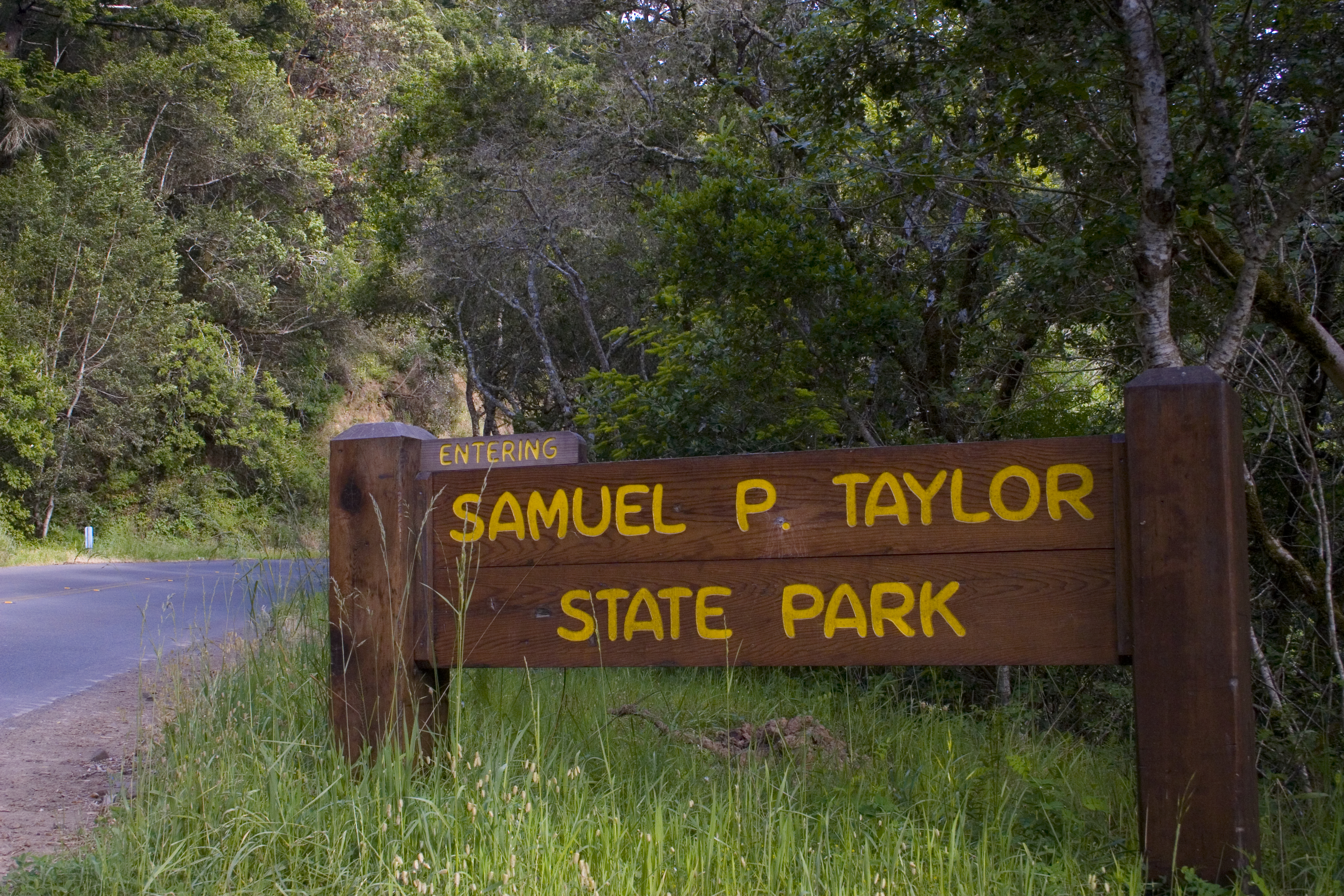 East entry sign of Samuel P. Taylor State Park in Marin County. Photograph taken from Sir Francis Drake Blvd.